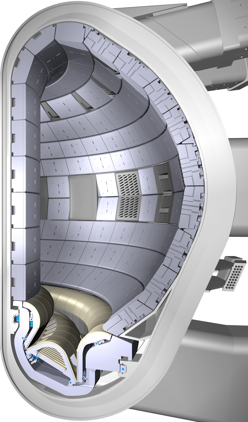 Engineering design image shows a cross-section of part of the planned ITER fusion reaction vessel. Diverter section (pale gray elements at the bottom) are sheathed in tungsten. Published with permission of ITER Disclaimer: Any mention of commercial products within NIST web pages is for information only; it does not imply recommendation or endorsement by NIST. Use of NIST Information: These World Wide Web pages are provided as a public service by the National Institute of Standards and Technology (NIST). With the exception of material marked as copyrighted, information presented on these pages is considered public information and may be distributed or copied. Use of appropriate byline/photo/image credits is requested.